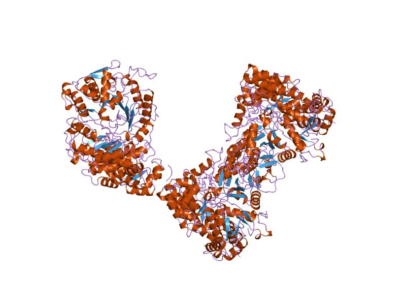 Cartoon representation of the molecular structure of protein registered with 7r1r code.